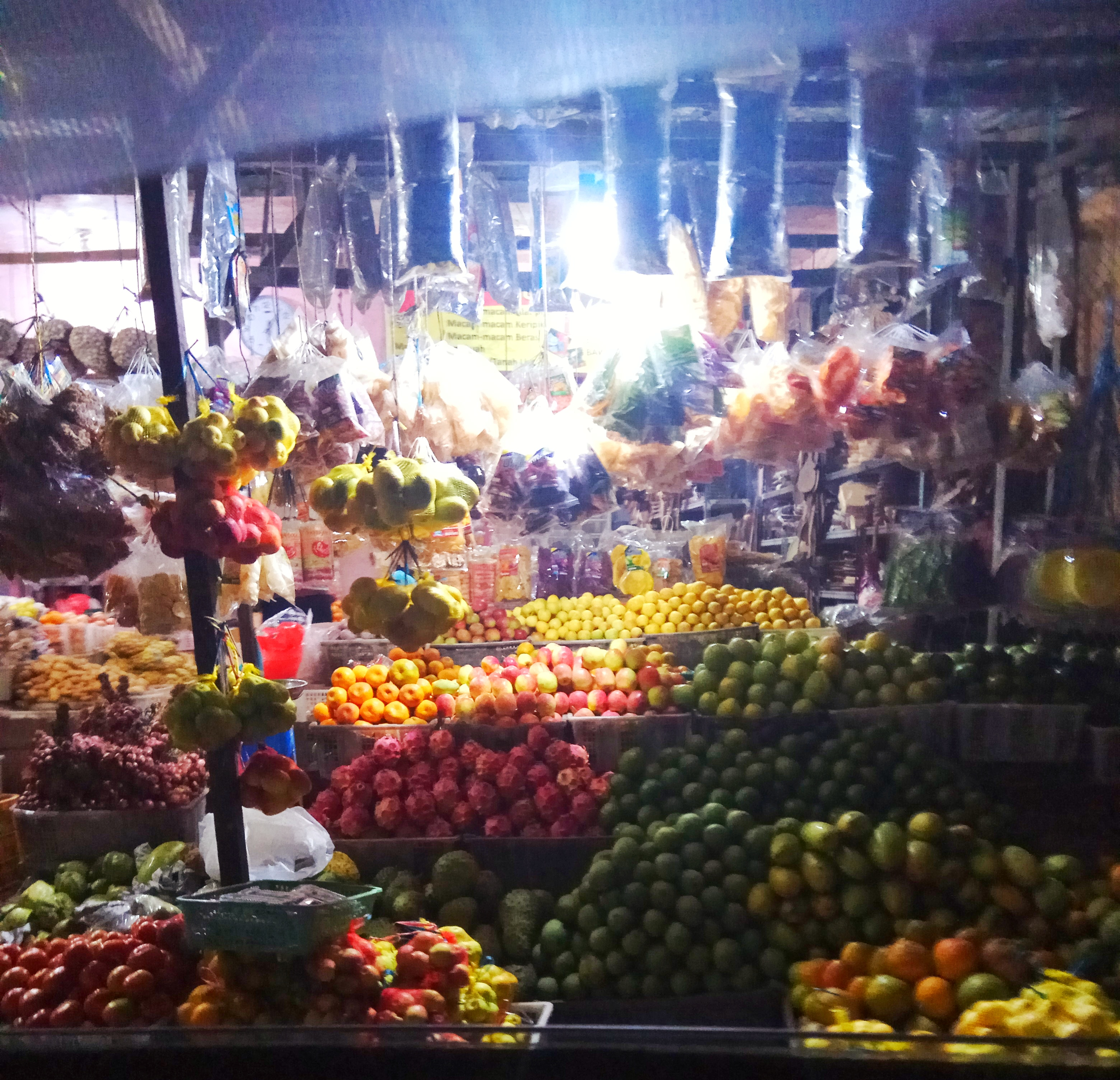 Local farmers' market